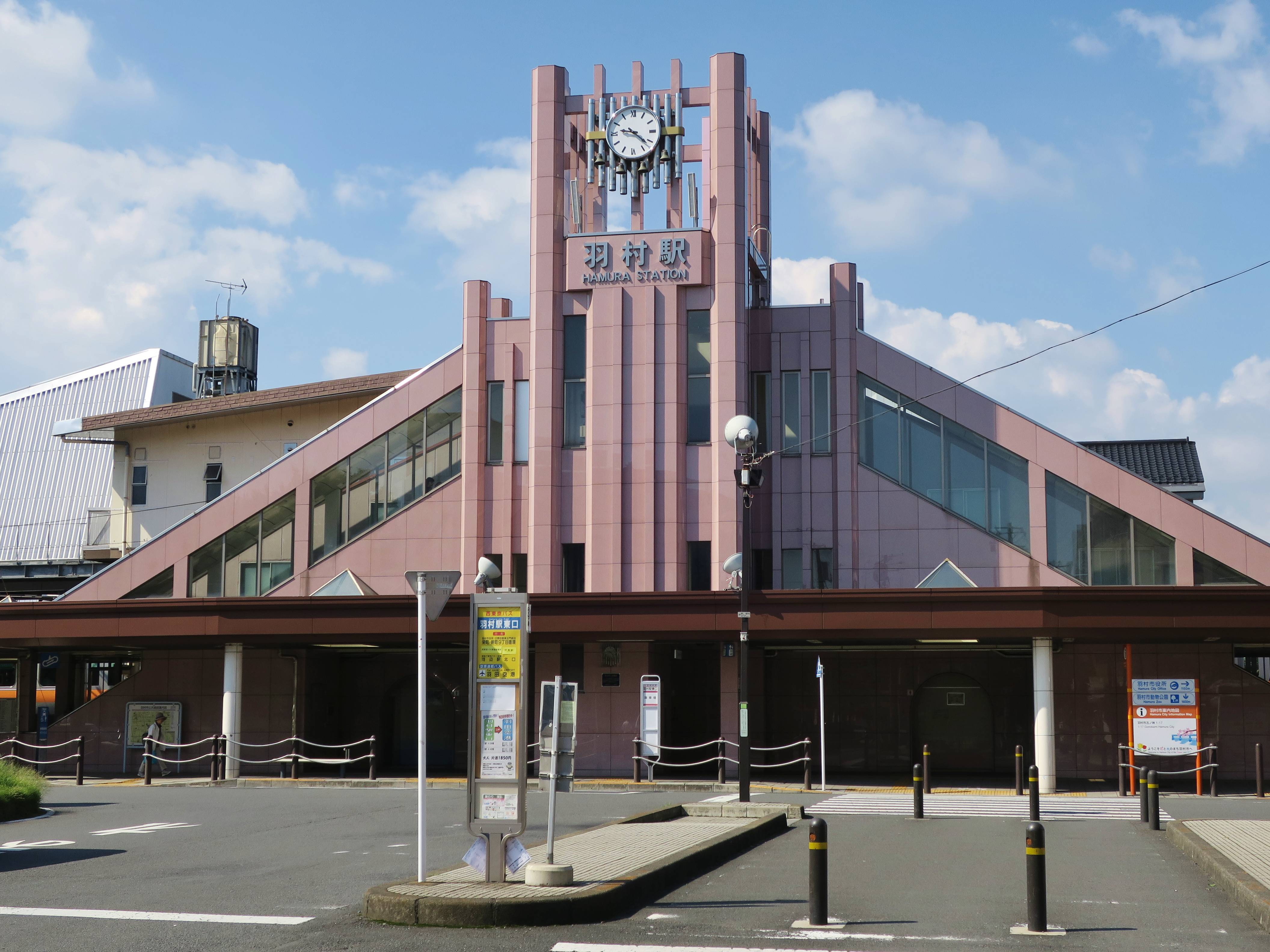 Hamura Station on the JR East Ome Line in Hamura, Tokyo, Japan